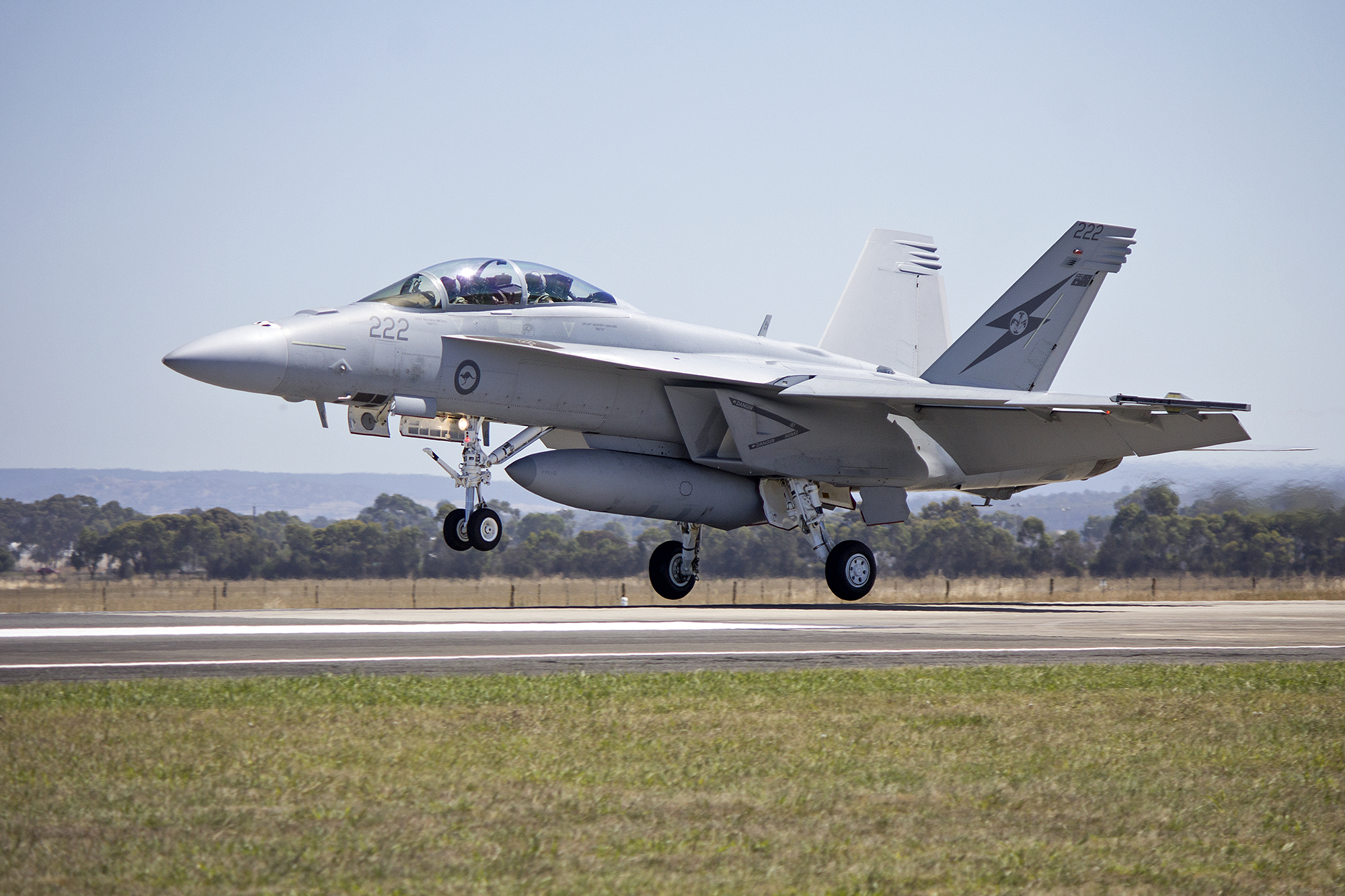 Royal Australian Air Force (A44-222) F/A 18F Super Hornet landing after an air display during the 2013 Avalon Airshow.